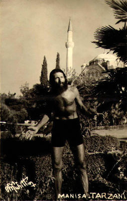 Ahmet Bedevi, known as Manisa Tarzani